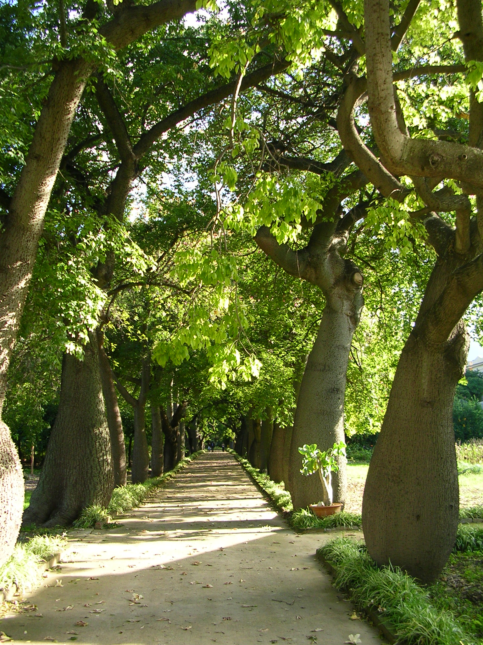 Ceiba speciosa in the Orto botanico di Palermo - Sicily - Italy